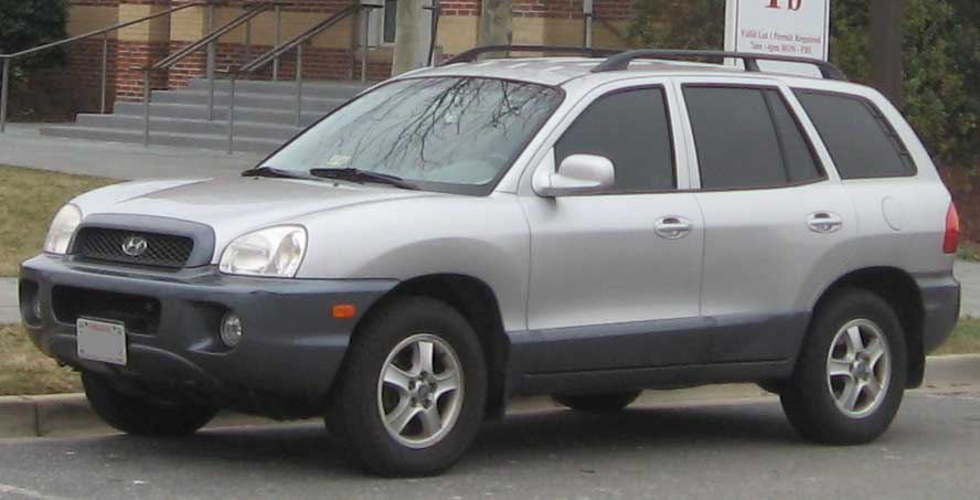 2001-2004 Hyundai Santa Fe photographed in College Park, Maryland, USA.